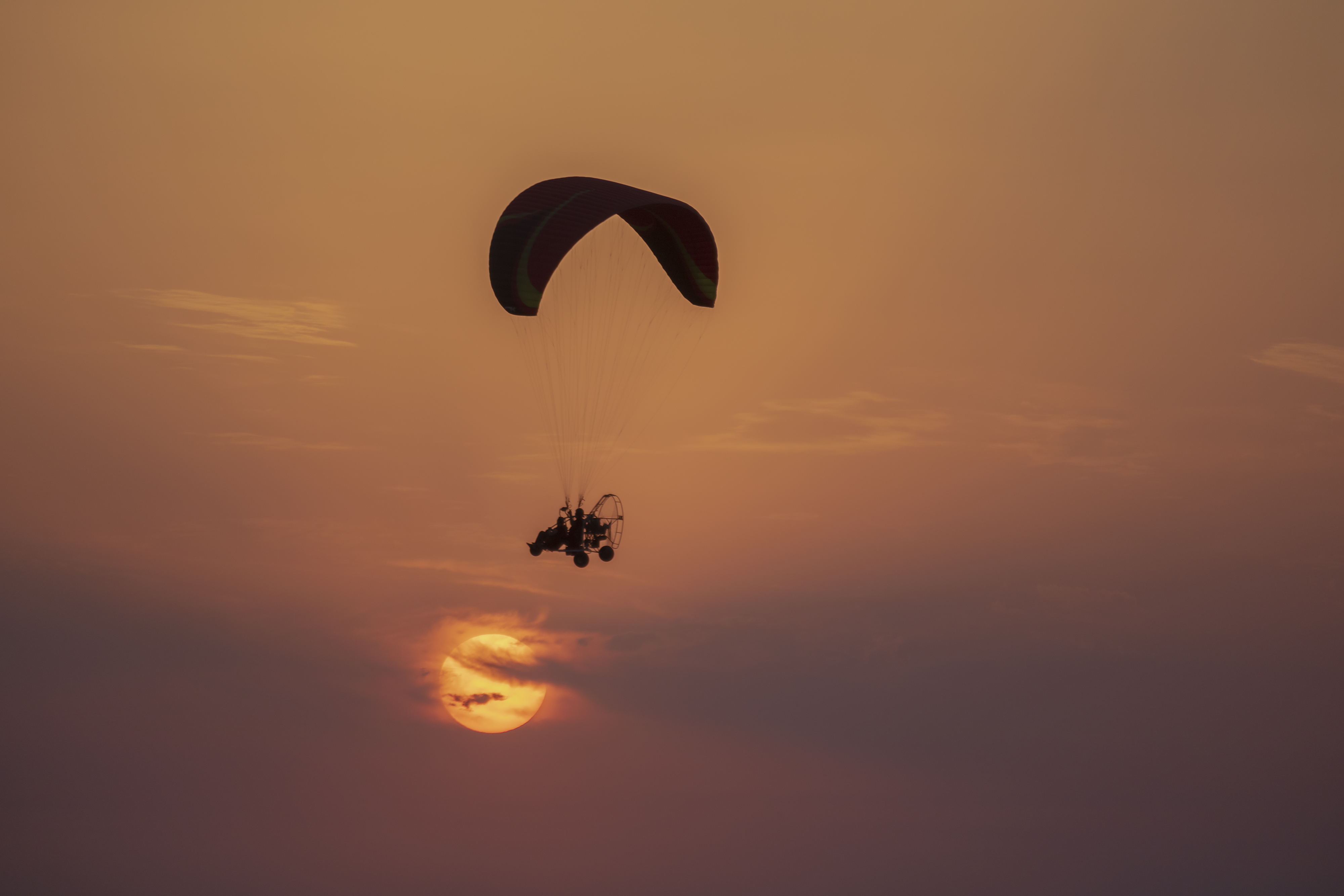 Sorkhrud is a city and capital of Sorkhrud District, in Mahmudabad County, Mazandaran Province, Iran. At the 2006 census, its population was 6,569, in 1,841 families.